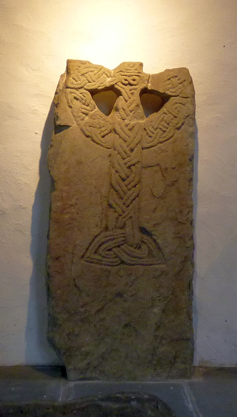 9th or 10th C, part of a slab cross with a plaitwork design. The top of the cross, is missing. From Margam, it is now in the Margam Stones Museum nr Port Talbot.